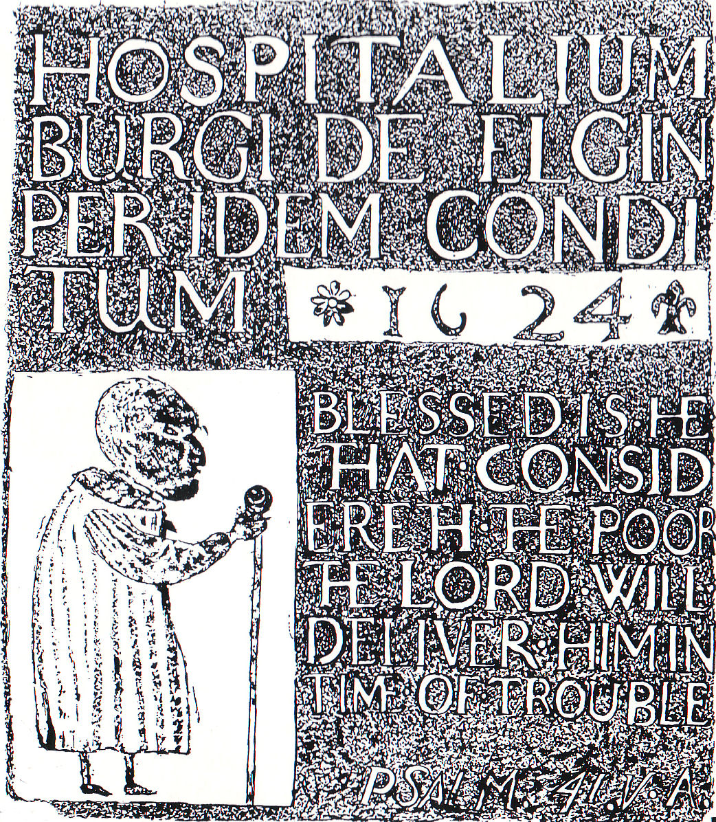 Copyright expired. Book by Herbert B Mackintosh, Elgin Past and Present, Elgin, 1914